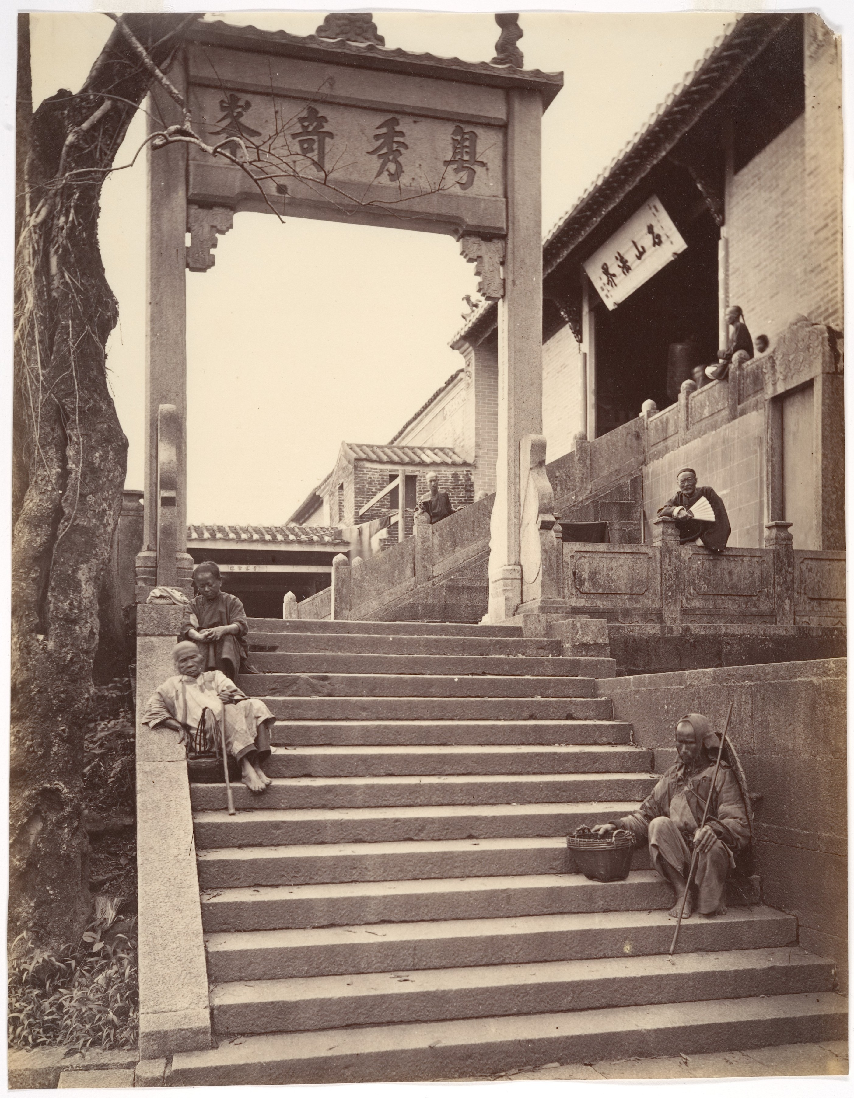 Beggars at the Gate of a Temple, Canton.